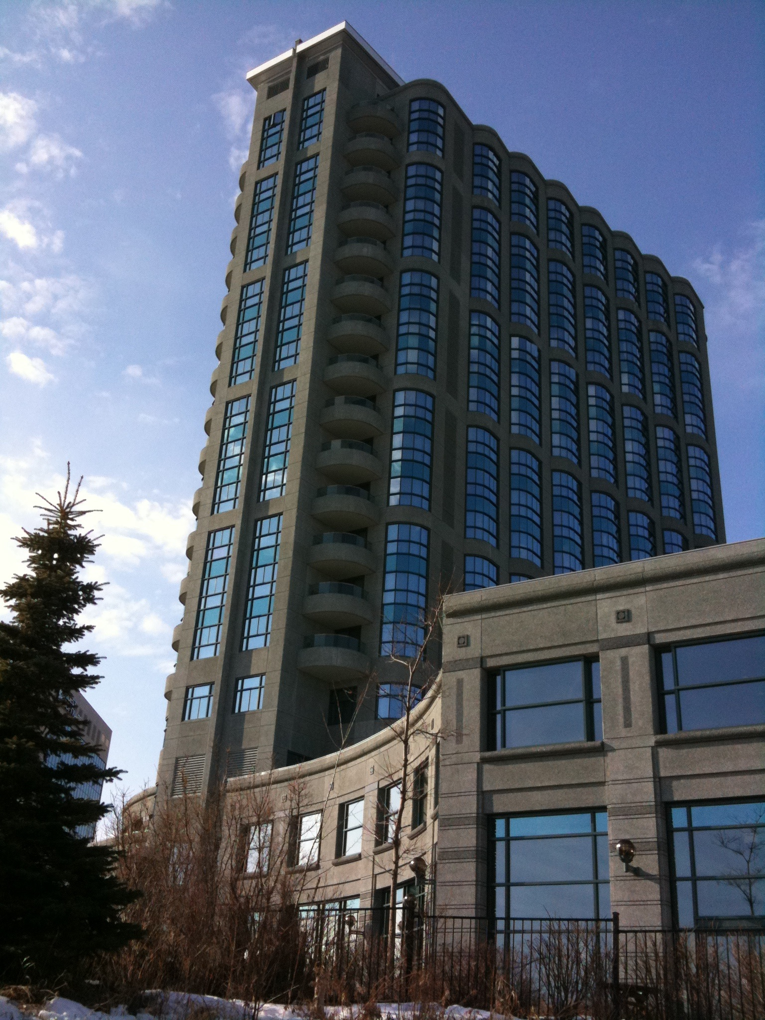 Rear of Brookstreet Hotel, Kanata, Ottawa. It's a nice sunny spot to park at the office.